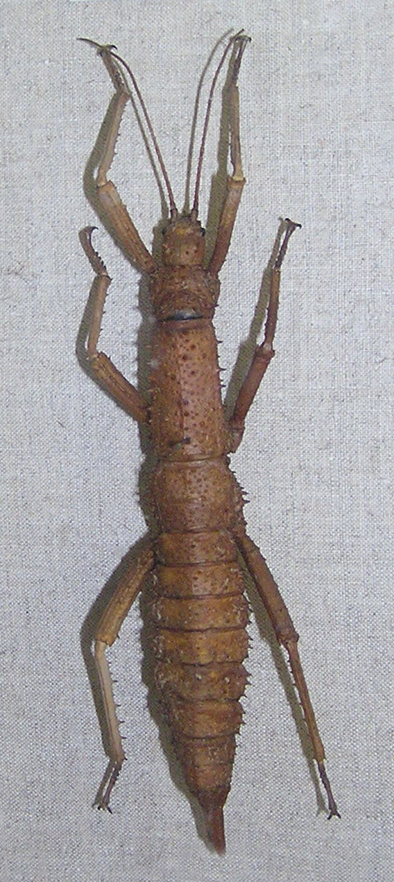 Female Eurycantha rosenbergii. Saint Petersburg Museum of Zoology, Russia.